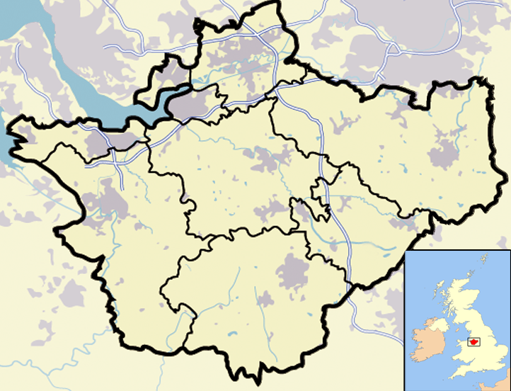 Map of Cheshire and surrounding area, with micromap of the British Isles for context. Urban areas are shown in grey, water bodies in light-blue, motorways in blue with white stripe and county and borough boundaries in black.